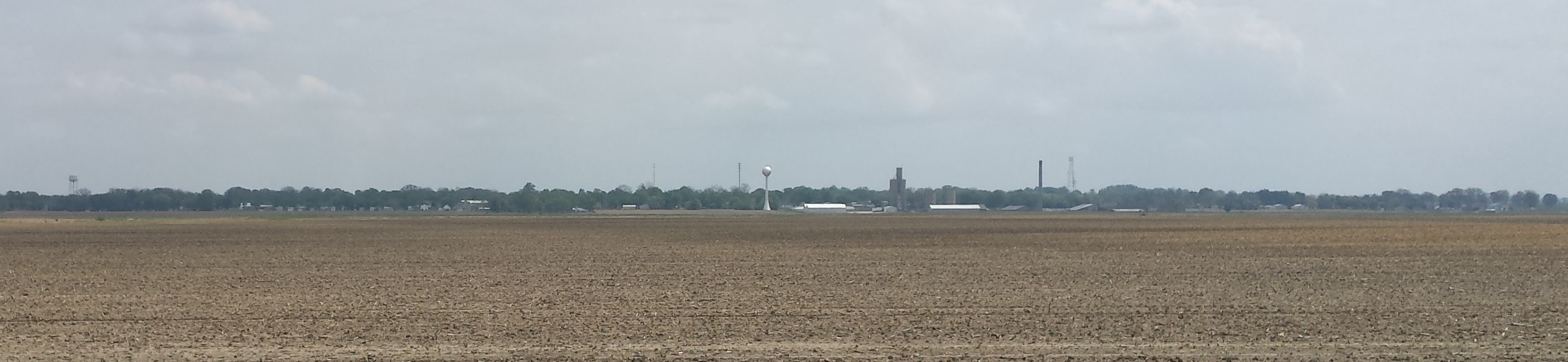 Panorama of west end of Fort Branch